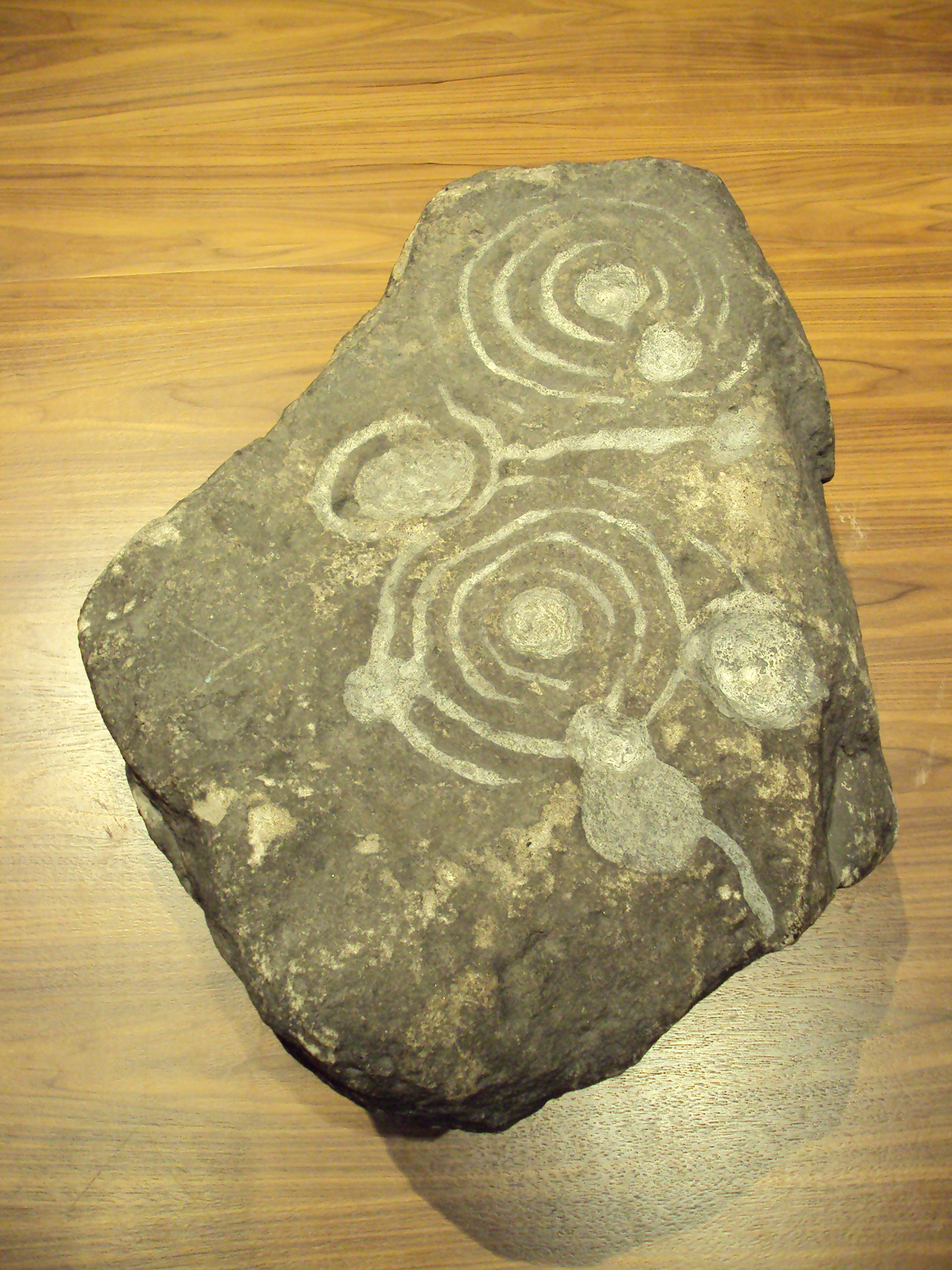 Cup and ring stone dating from 3000-1700 BCE at the Kelvingrove Art Gallery and Museum, Glasgow, Scotland.